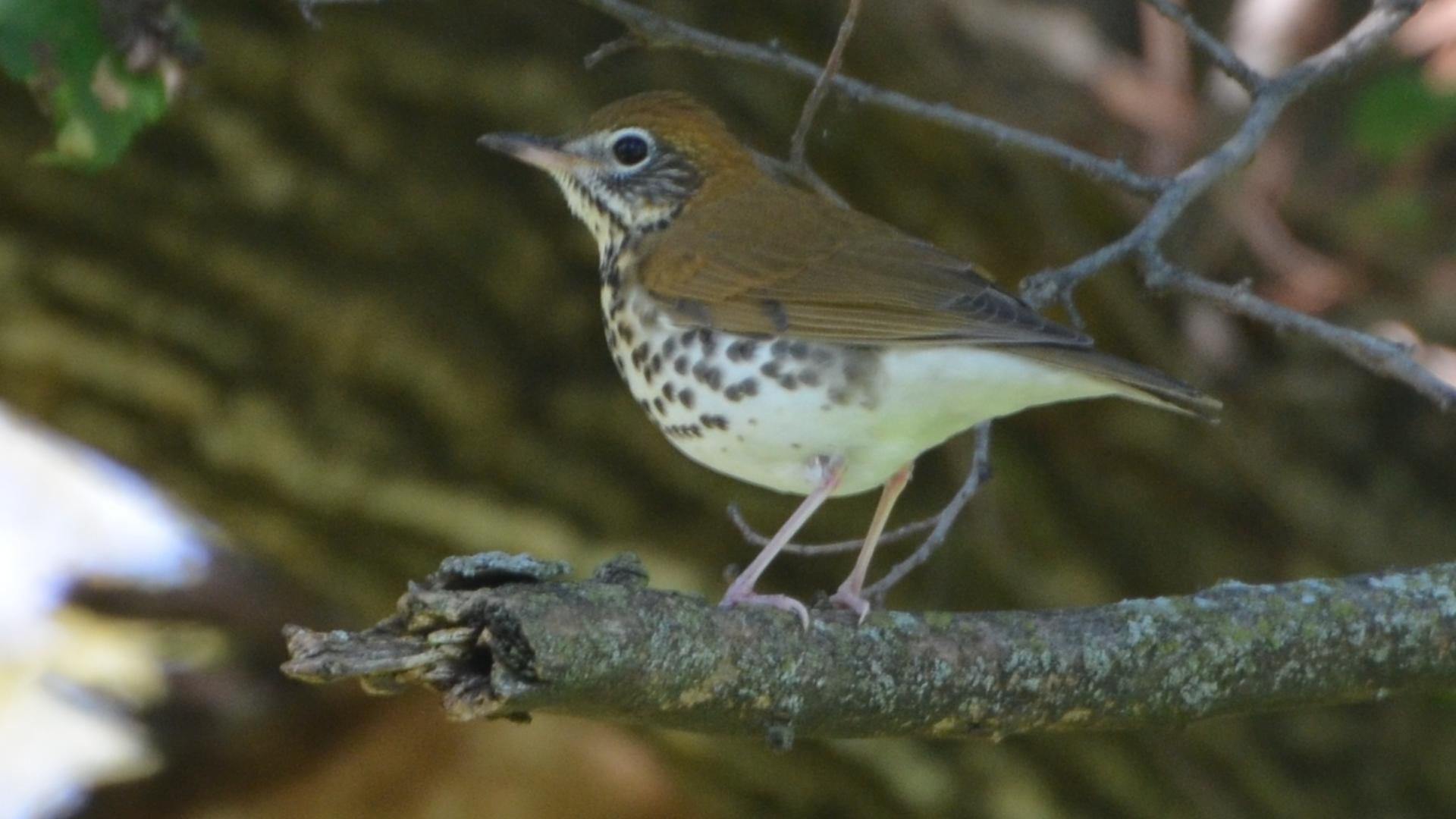 Tower Grove Park n St. Louis Missouri 9/23/12